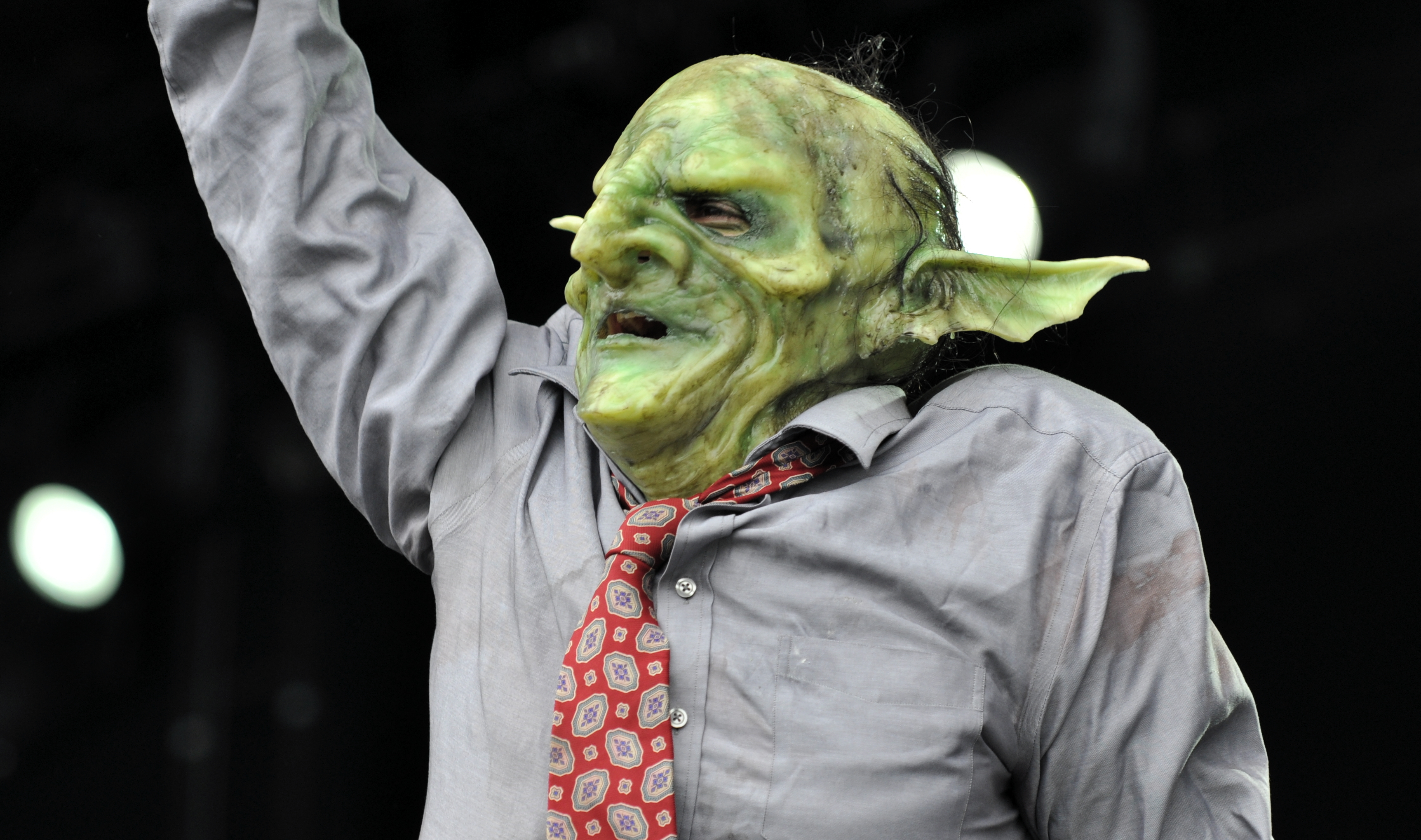 Nekrogoblikon at Rock am Ring 2013